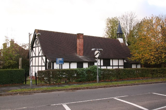 St.Mark's mission church, Oldcotes. A small chapel of ease at Oldcotes crossroads